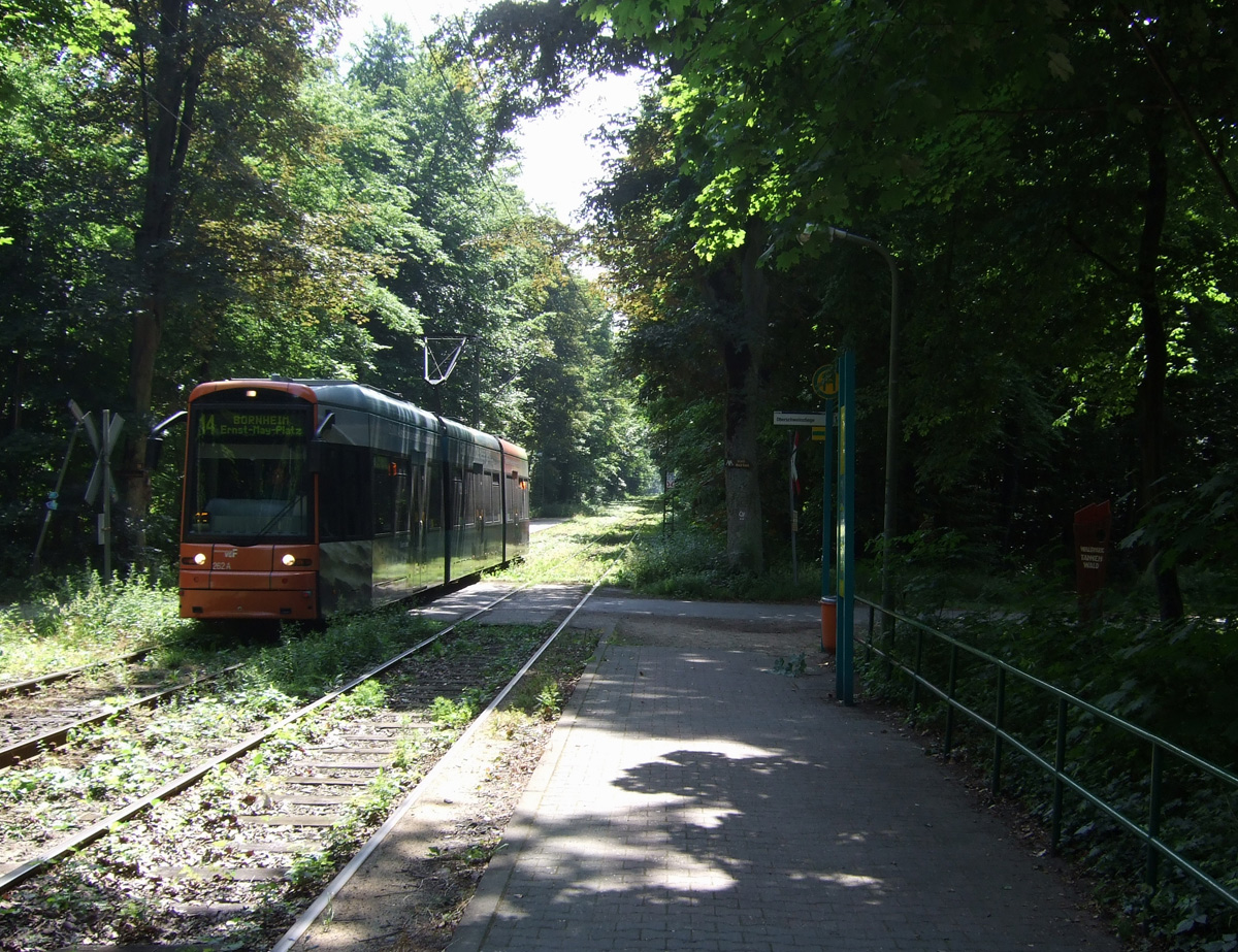 Here, the money exchange took place in the kidnapping case of Jakob von Metzler: tram station Oberschweinstiege in Frankfurt's communal forest.